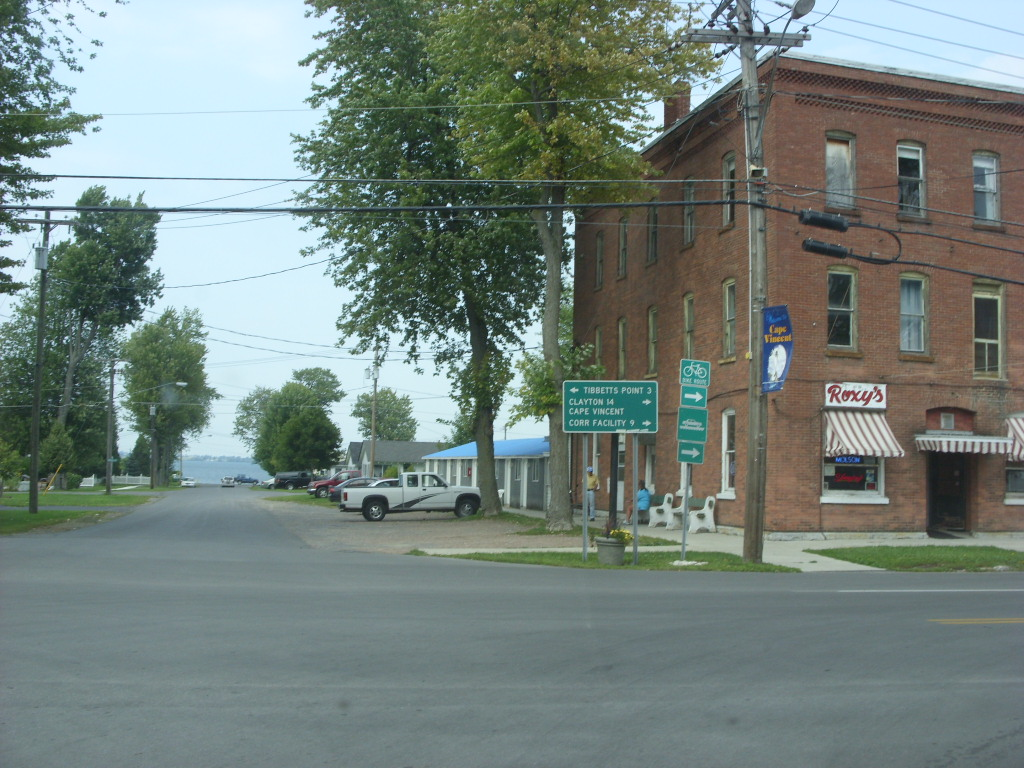 A 90-degree turn on New York State Route 12E northbound in Cape Vincent. Straight ahead is Lake Ontario.